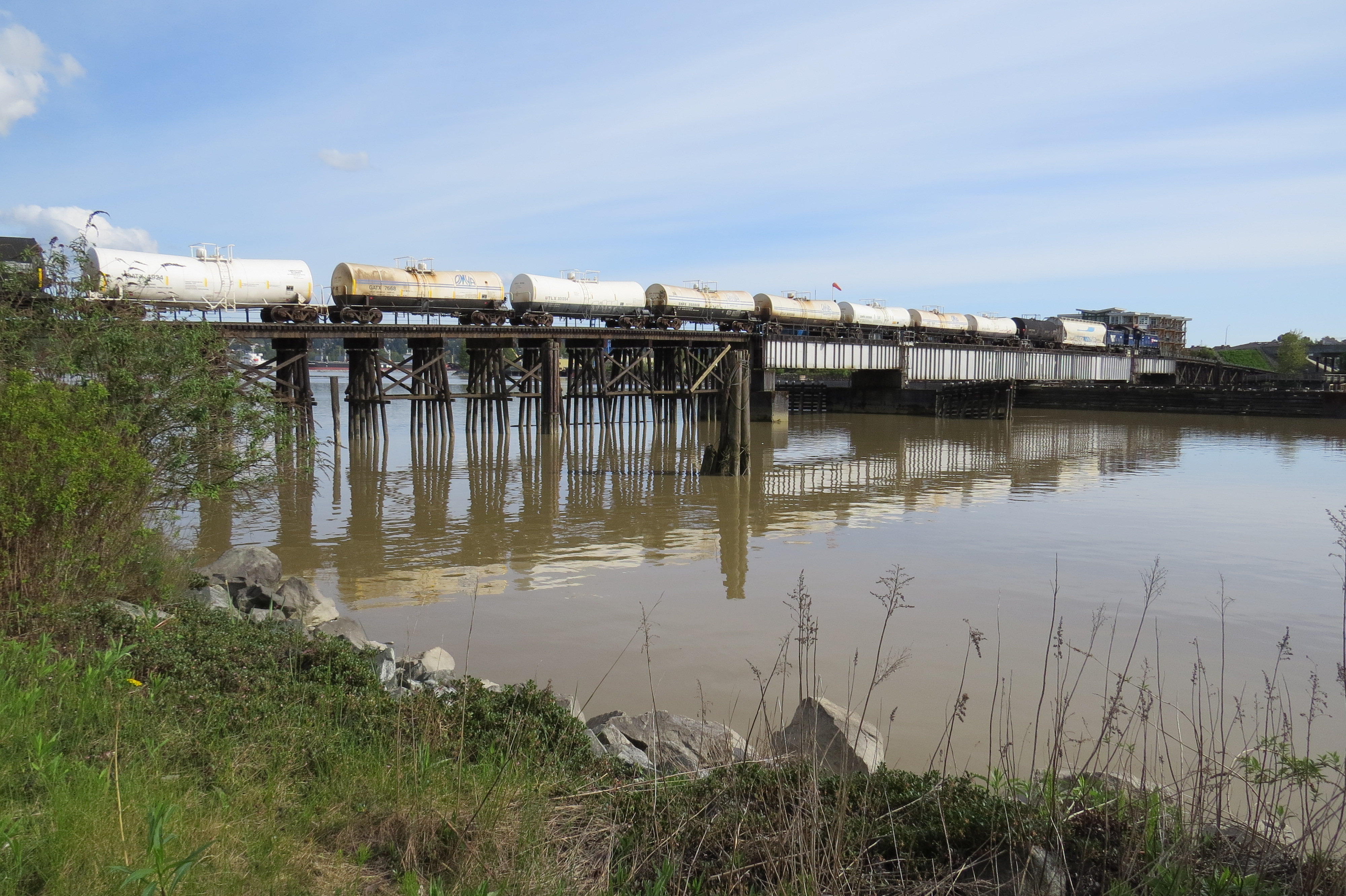 Quayside Drive & BC Parkway in New Westminster were blocked for 30 minutes when a long train of tanker cars stopped while crossing the Queensborough Railway Bridge. Things got moving after two locomotives from Queensborough joined the waiting train.